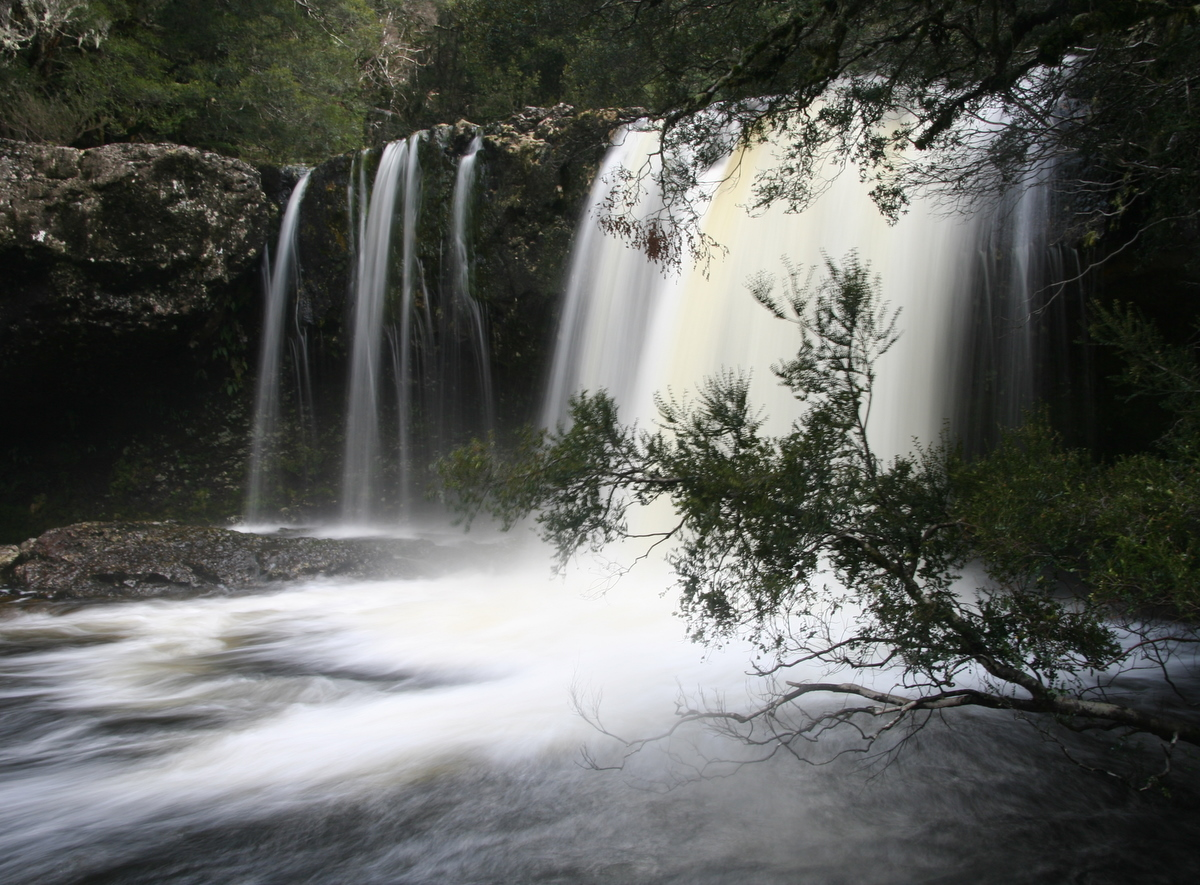 Knyvet Falls near Cradle Mountain, Tasmania